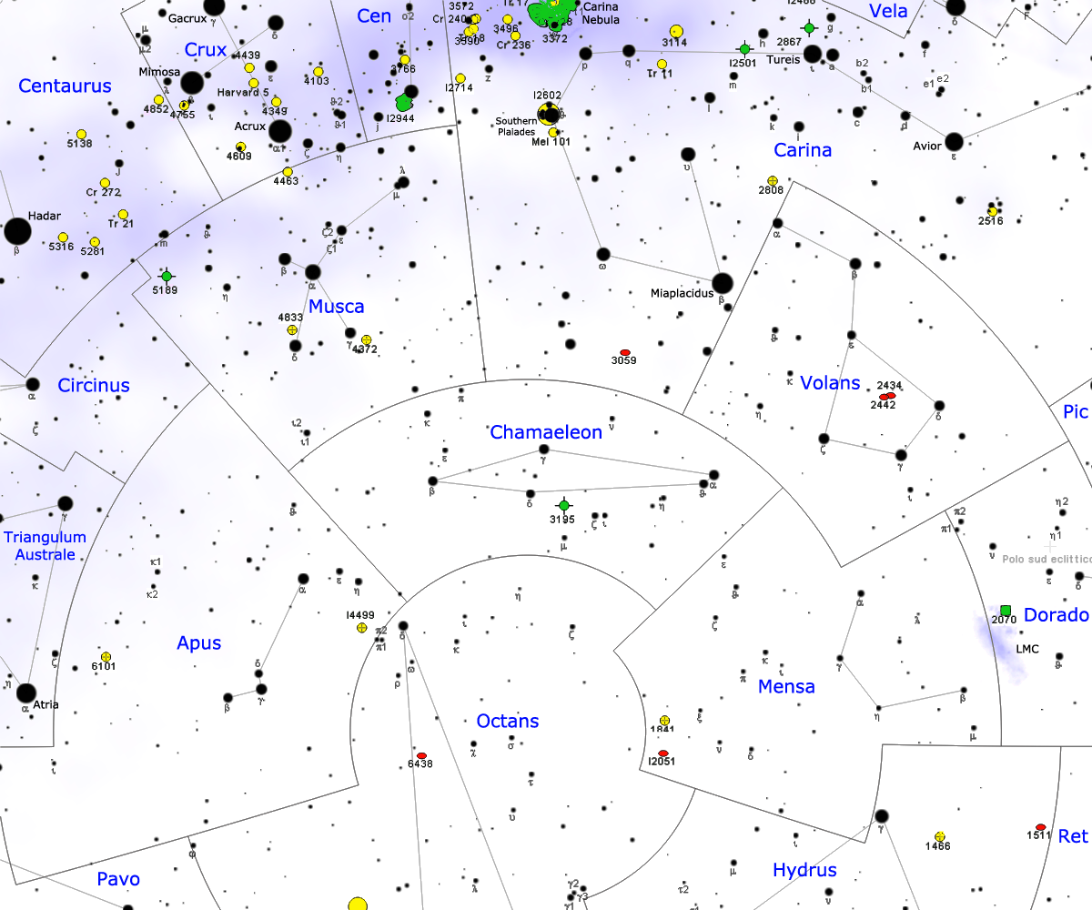 Map of Chamaeleon